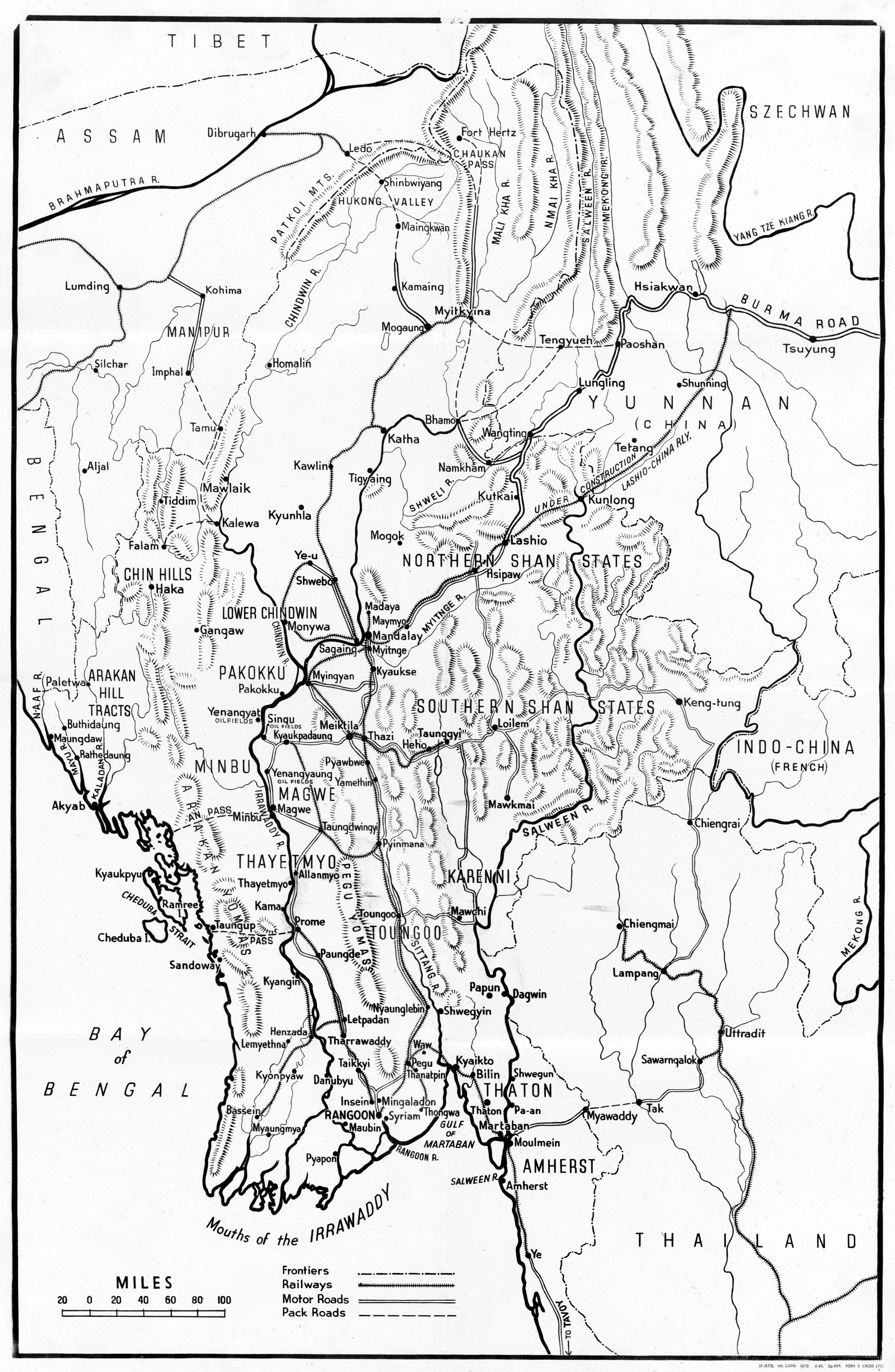 UK Second World War poster: "Burma: Map of Frontiers, Railways, Motor Roads, and Pack Roads".